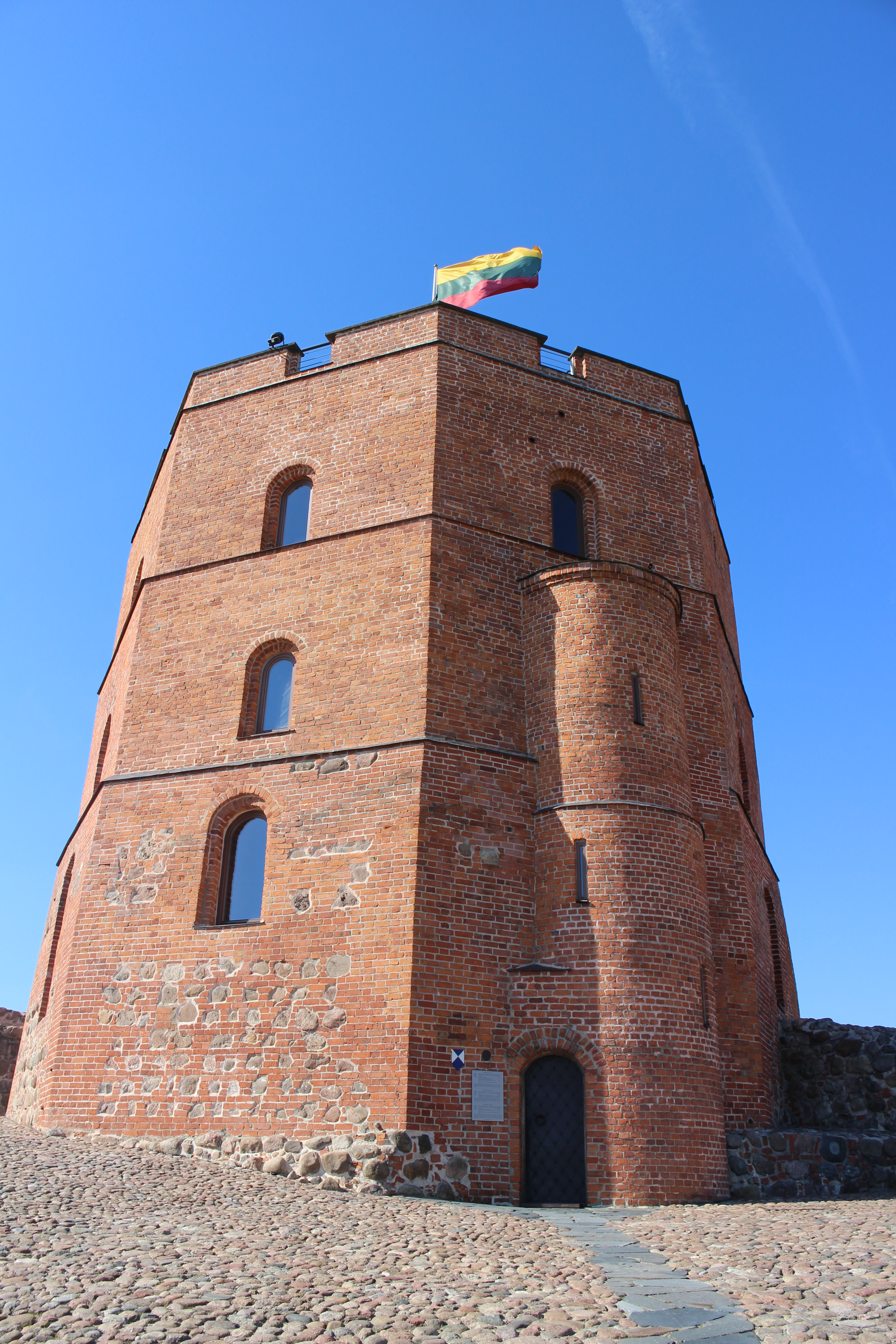 Gediminas Tower